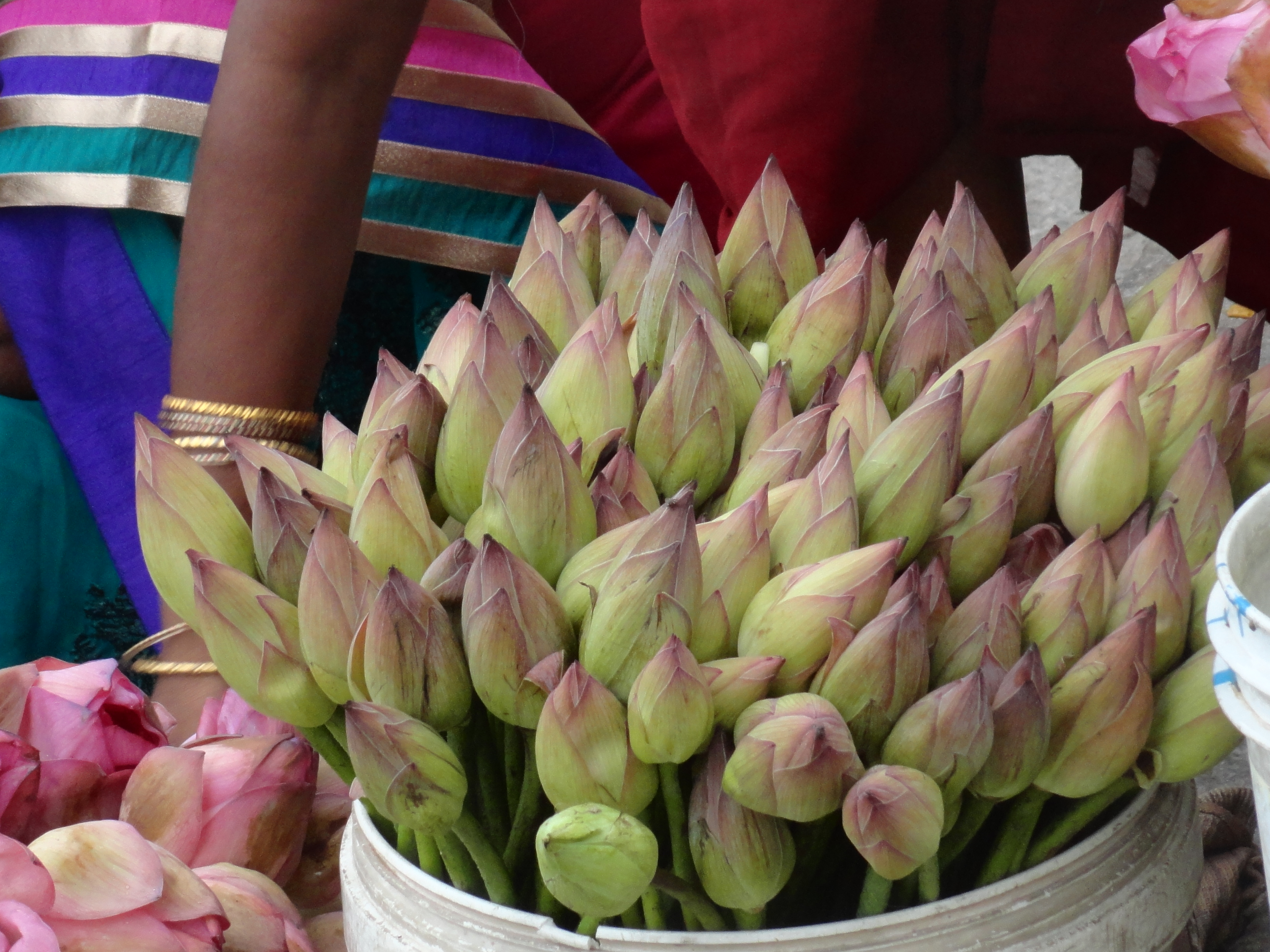 అమ్మకానికి తామర పూలు. తిరుచానూరు లో తీసిన చిత్రము